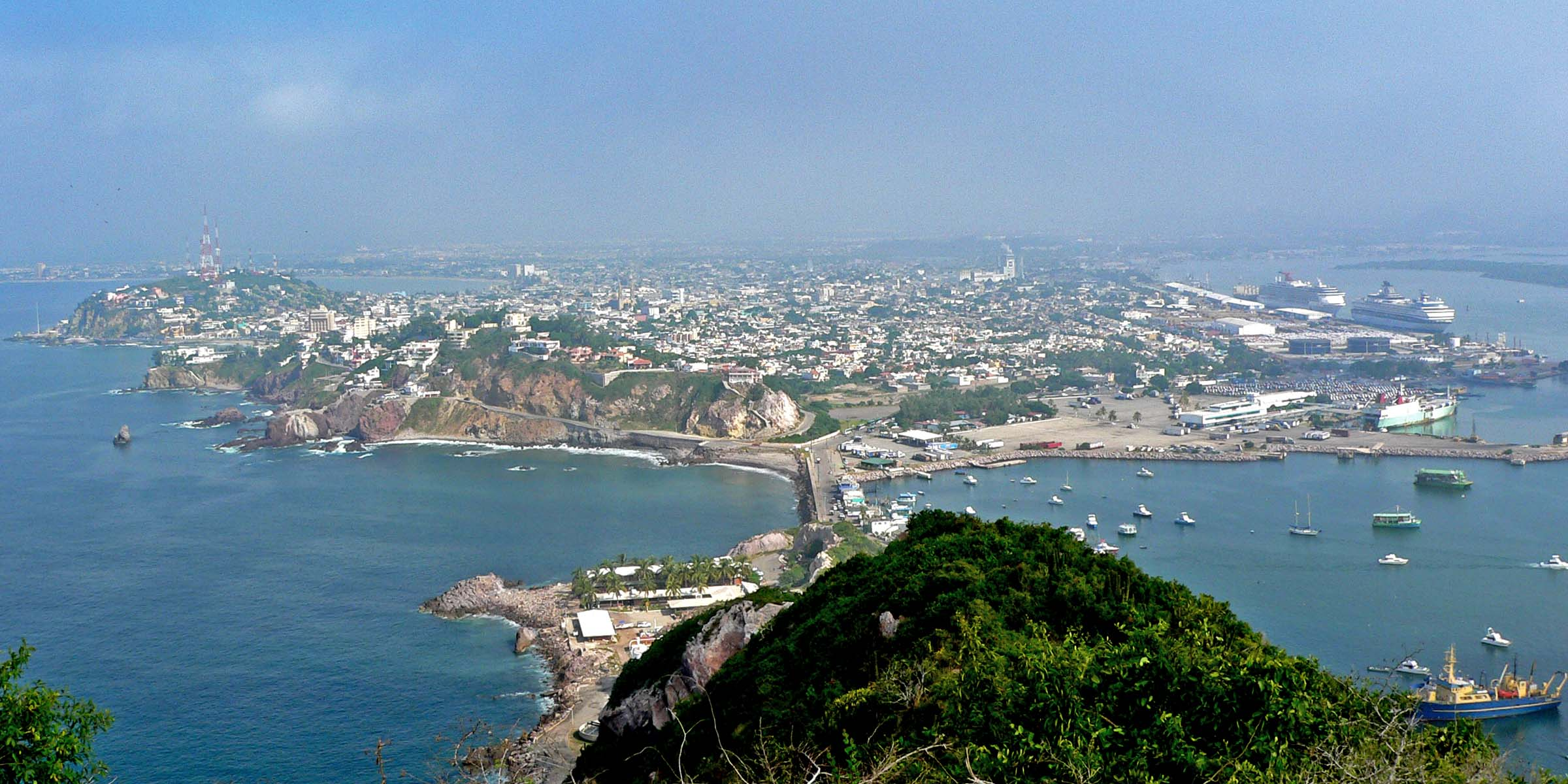 Photo of Mazatlan from El Faro